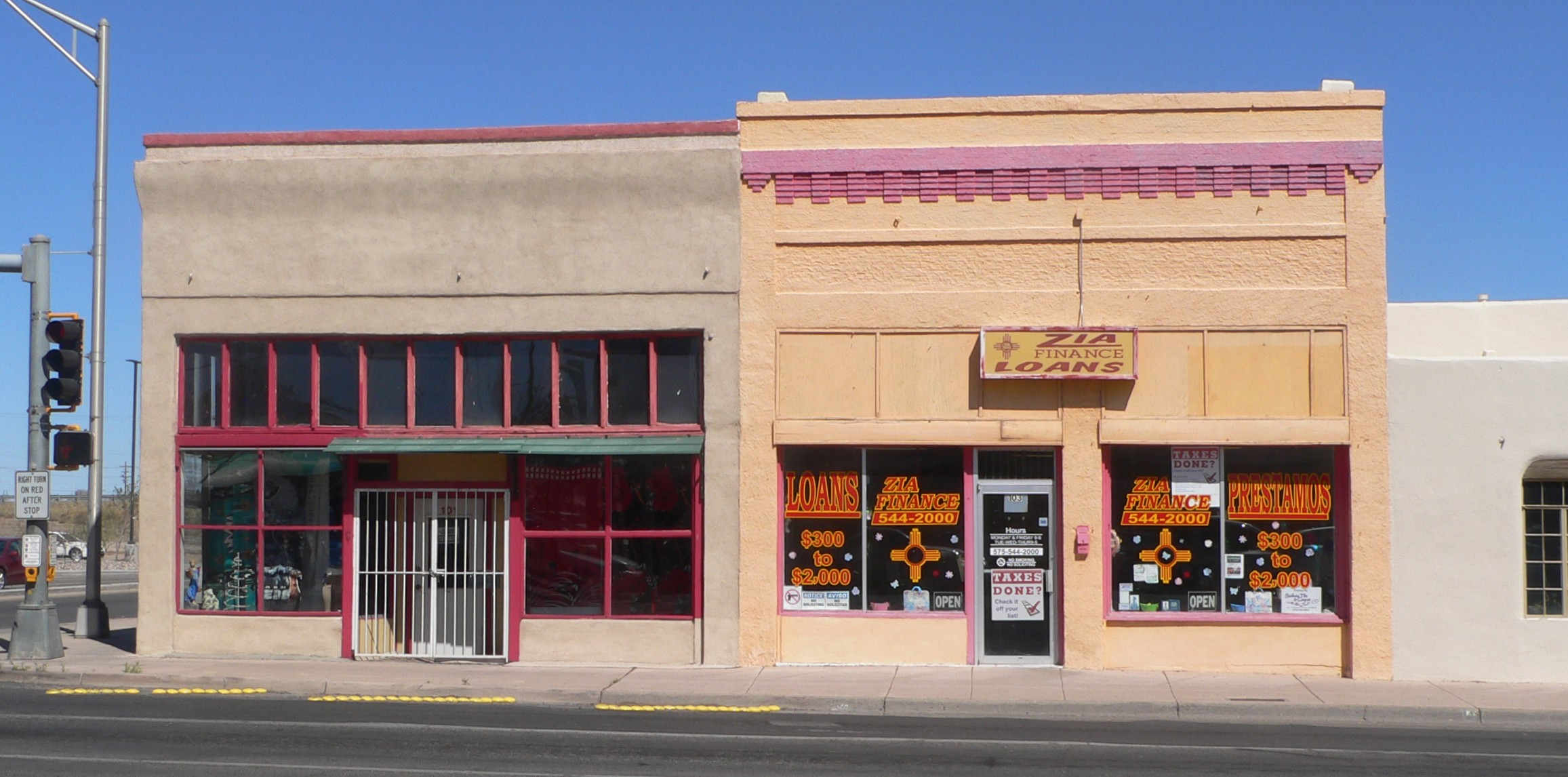 Buildings at 101 (left) and 103 (right) E. Pine Street, at the northeast corner of Pine and Gold Streets, in Deming, New Mexico. Both buildings are contributing properties in the Downtown Deming Historic District, listed in the National Register of Historic Places.